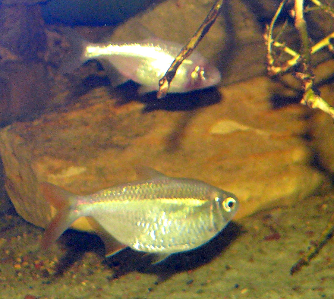 Astyanax mexicanus, normal Form and blind Cave-Form